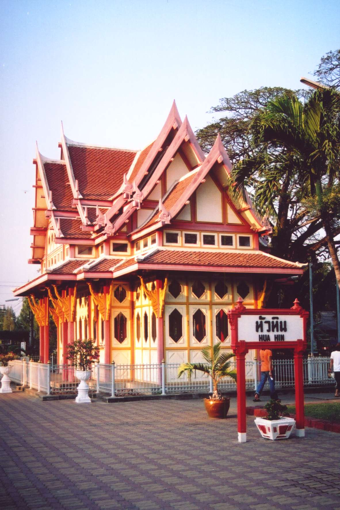 Hua Hin trainstation sala